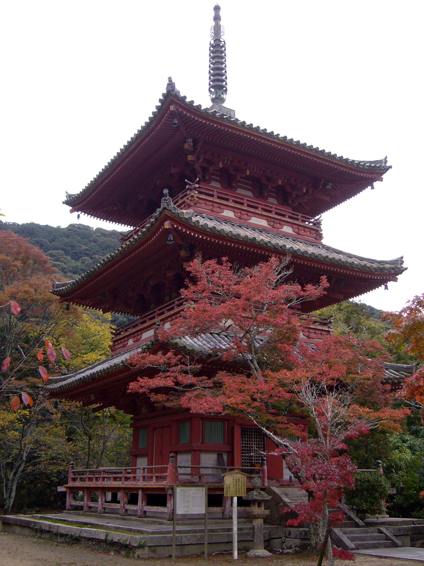 Taisanji Buddhist temple in Kobe, Hyogo prefecture, Japan Opening in 716. This photograph is the Pagoda. It was built in 1688.